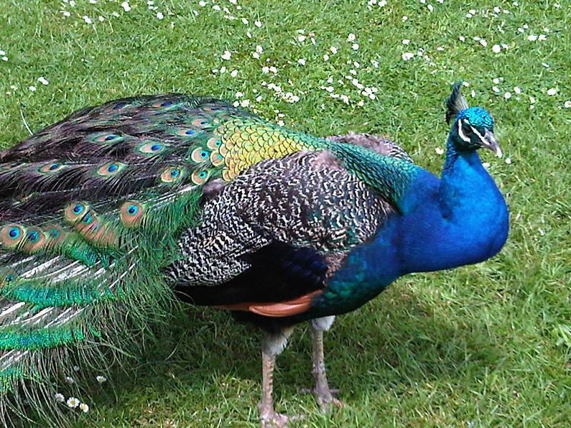 A male Indian Peafowl (Pavo cristatus) in Kew Gardens, England.